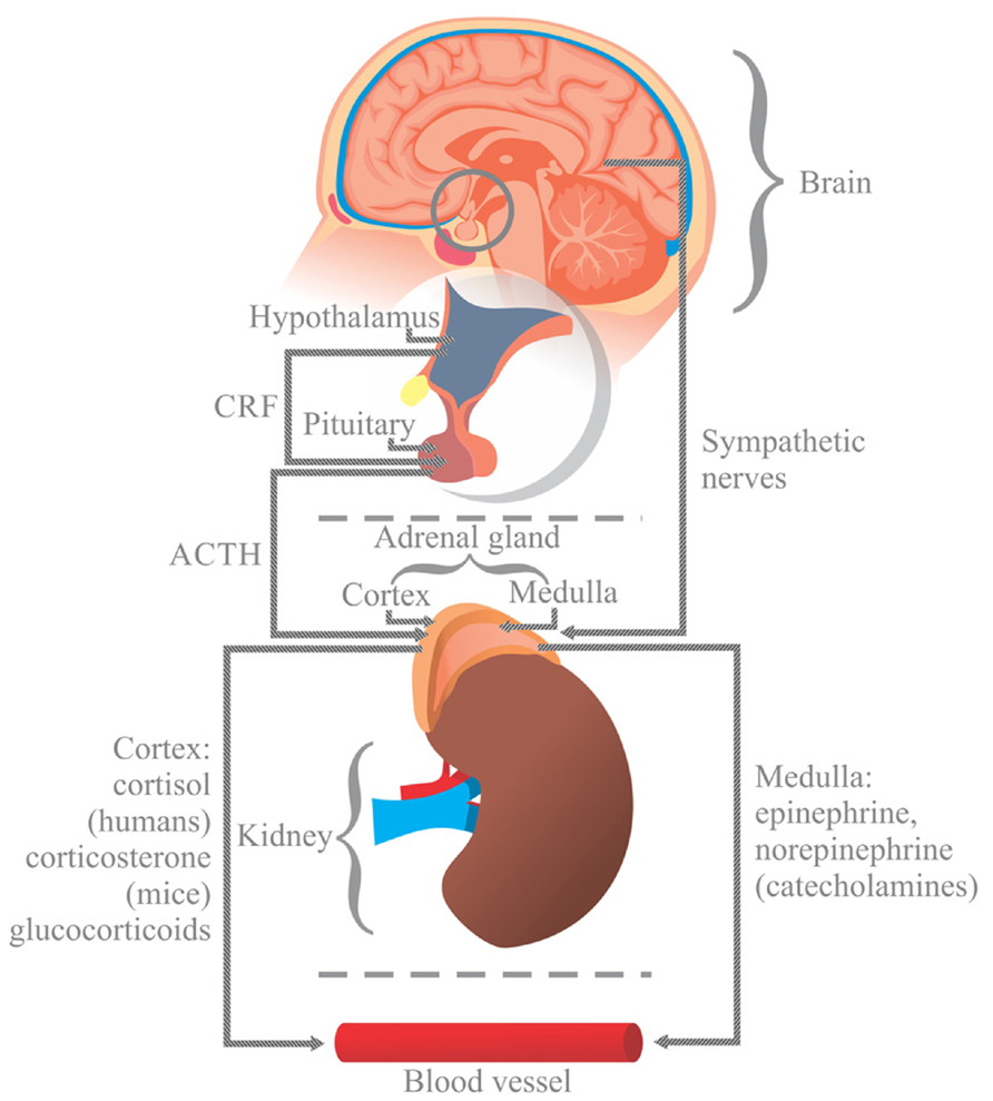 In response to stress, the hypothalamus (H) releases the corticotrophin releasing factor (CRF) into the anterior pituitary (P), causing the release of adrenocorticotropic hormone (ACTH) into the blood flow. ACTH stimulates the generation of glucocorticoids (cortisol in humans and corticosterone in mice) in the cortex of the adrenal gland (A), which are then released into the blood. Stress also activates the autonomic sympathetic nerves in the medulla of the adrenal gland to elicit the production of catecholamines, norepinephrine and epinephrine, which are then released into the blood. Glucocorticoids and catecholamines influence the generation of interleukins, which are involved in the viability and proliferation of immunocompetent gut cells via receptors.